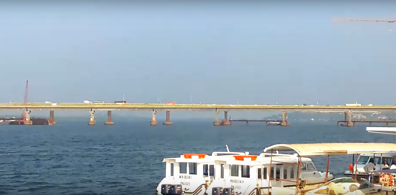 This photo was clicked by me in October 2017.